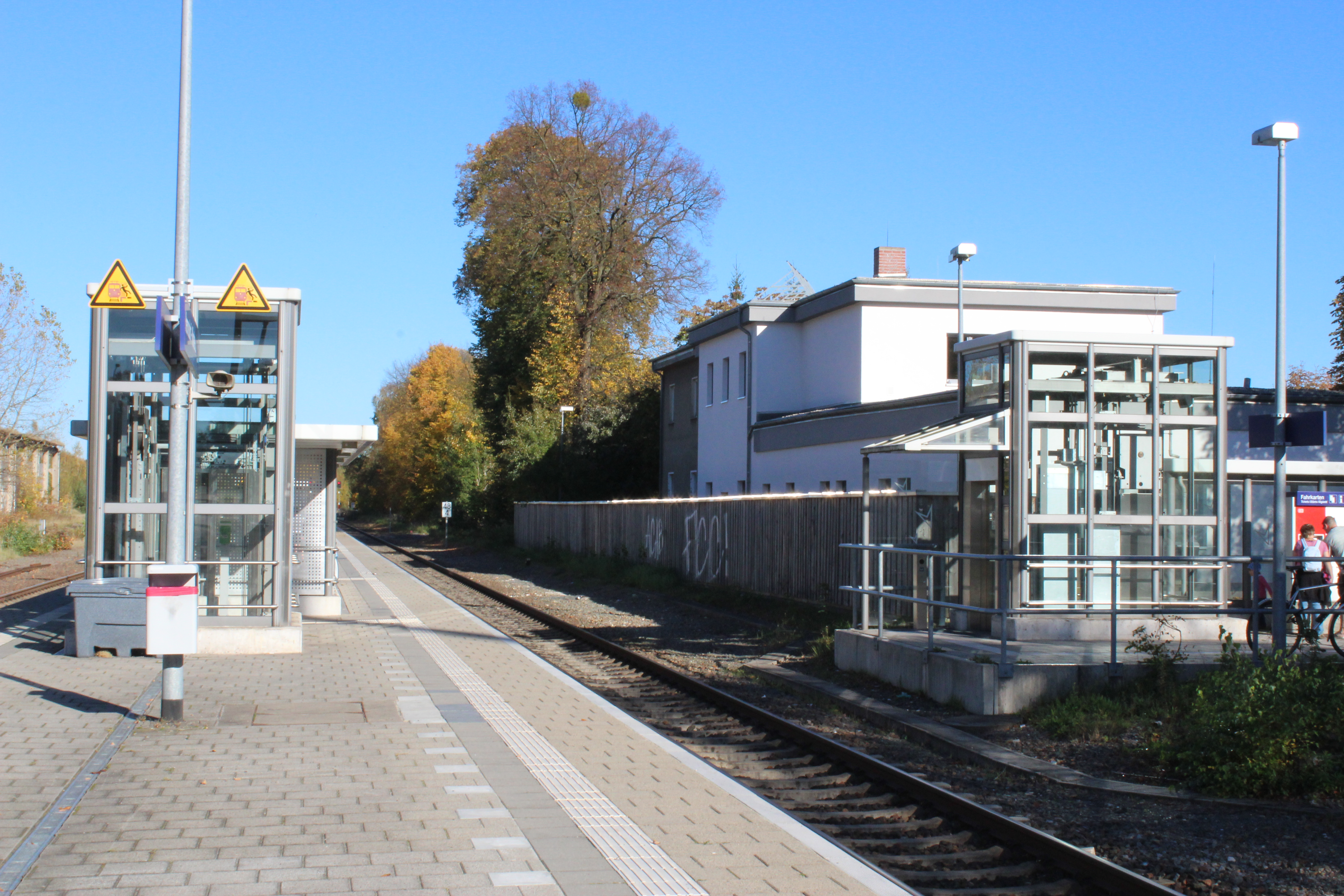 train station Hermsdorf-Klosterlausnitz, station building